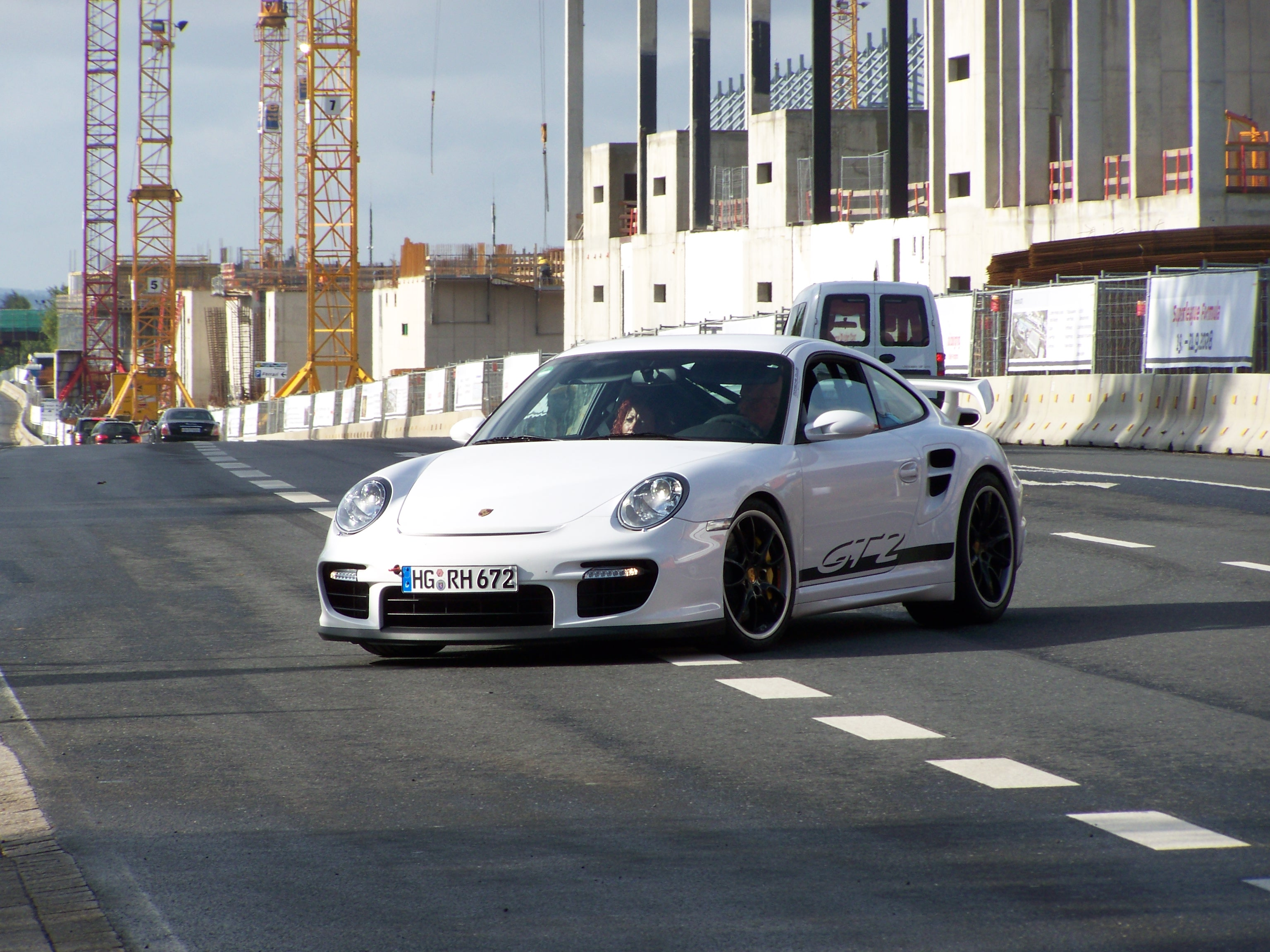 Porsche 997 GT2 and a Maserati Quattroporte in the background.Porsche 997 GT2